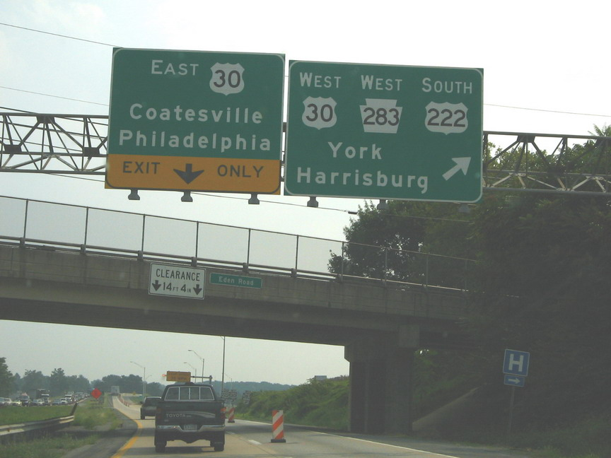 U.S. Route 222 approaching U.S. Route 30